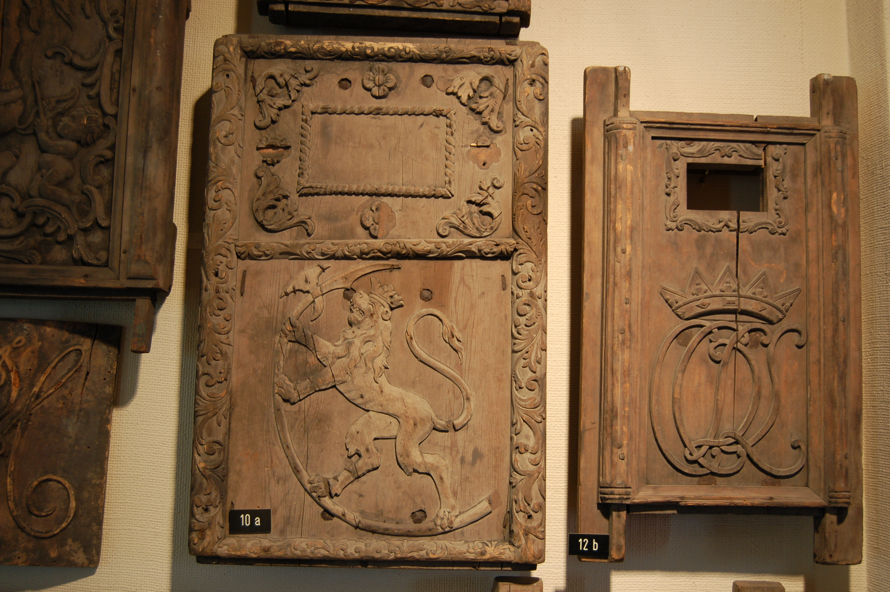 Wooden models for stove plates used in heating stoves made by cast iron. Decorated with early example of Norwegian coat of arms and the monogram of count Christian Conrad Danneskiold Laurvig. From the iron work Fritzøe jernverk in Larvik, Norway.